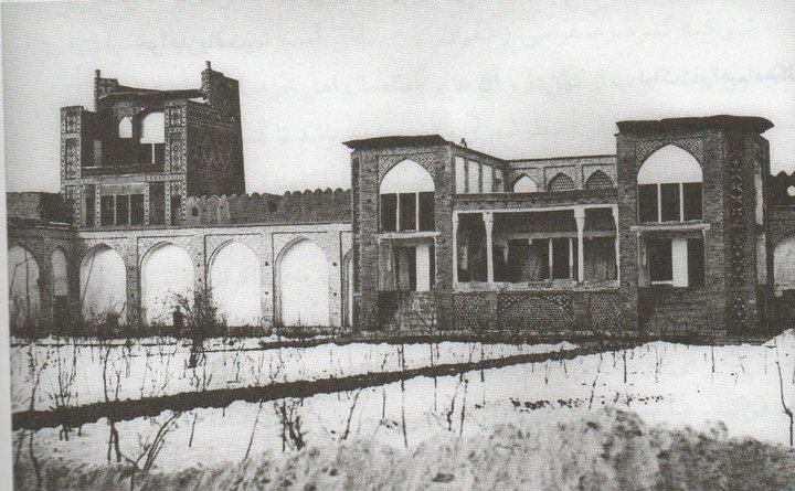 The Glass Tower, most beautiful building in historic Arak, with colourful glasses.